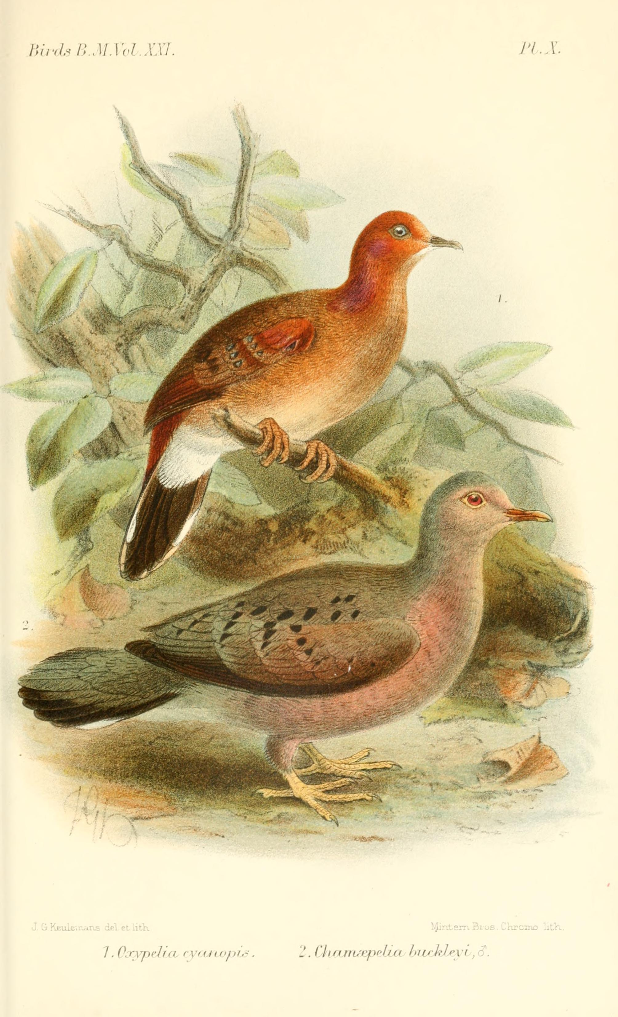 Oxypelia cyanopis = Columbina cyanopis, Blue-eyed Ground-dove (above); and Chamaepelia buckleyi = Columbina buckleyi, Ecuadorian Ground-dove (below)